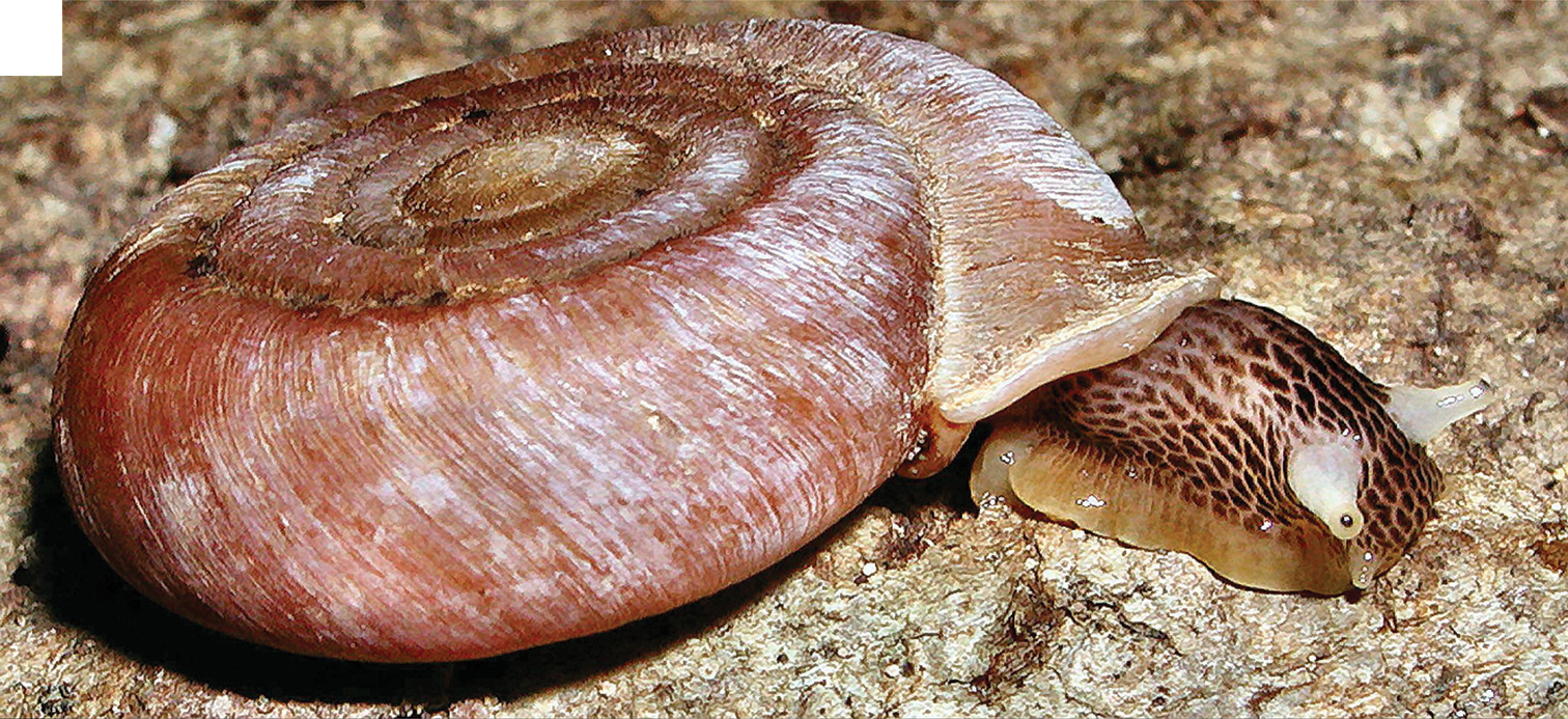 Photo of Naggsia laomontana.